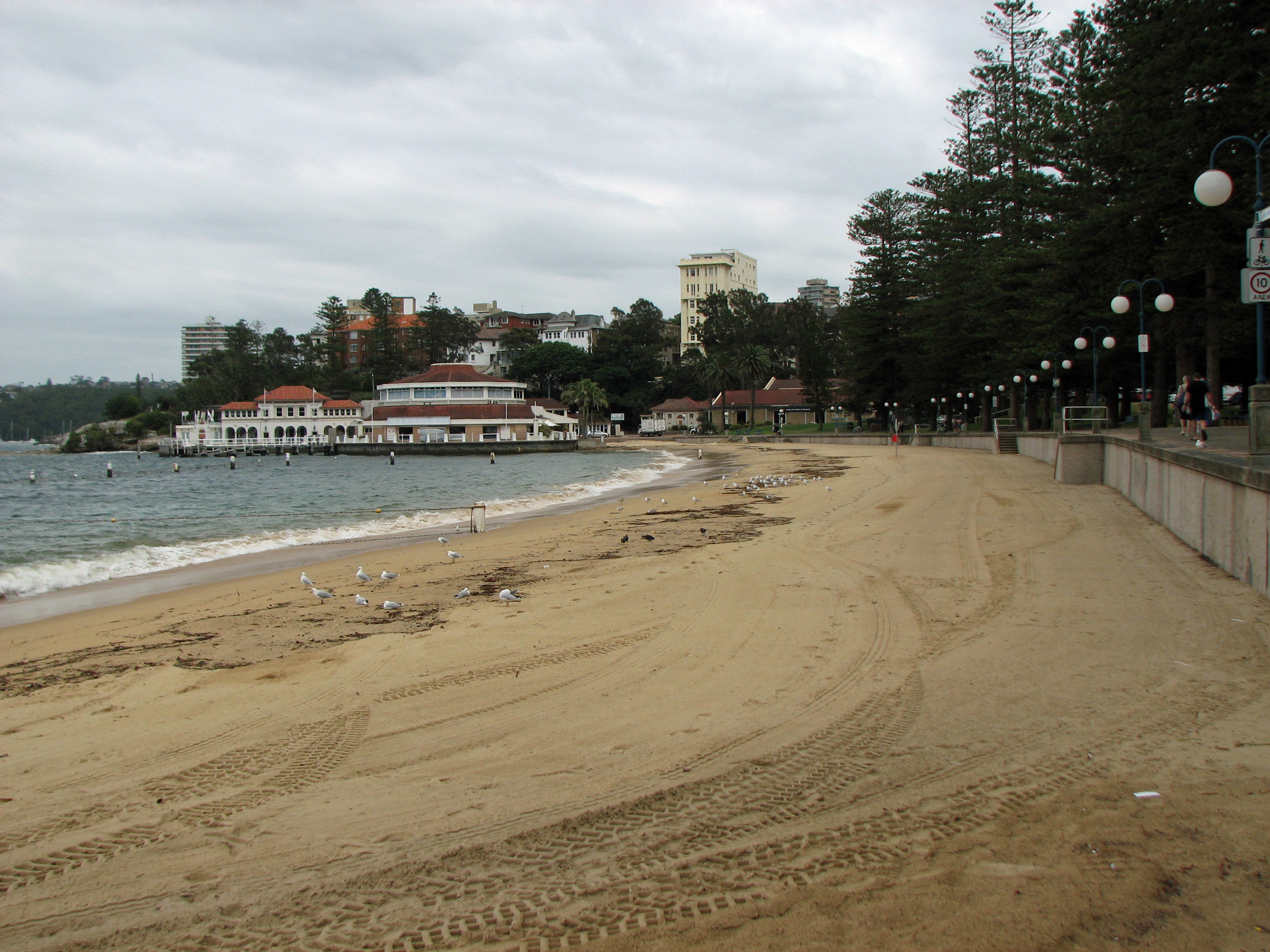 The Manly Cove Pavilion is a Heritage Listed Building at Manly, New South Wales